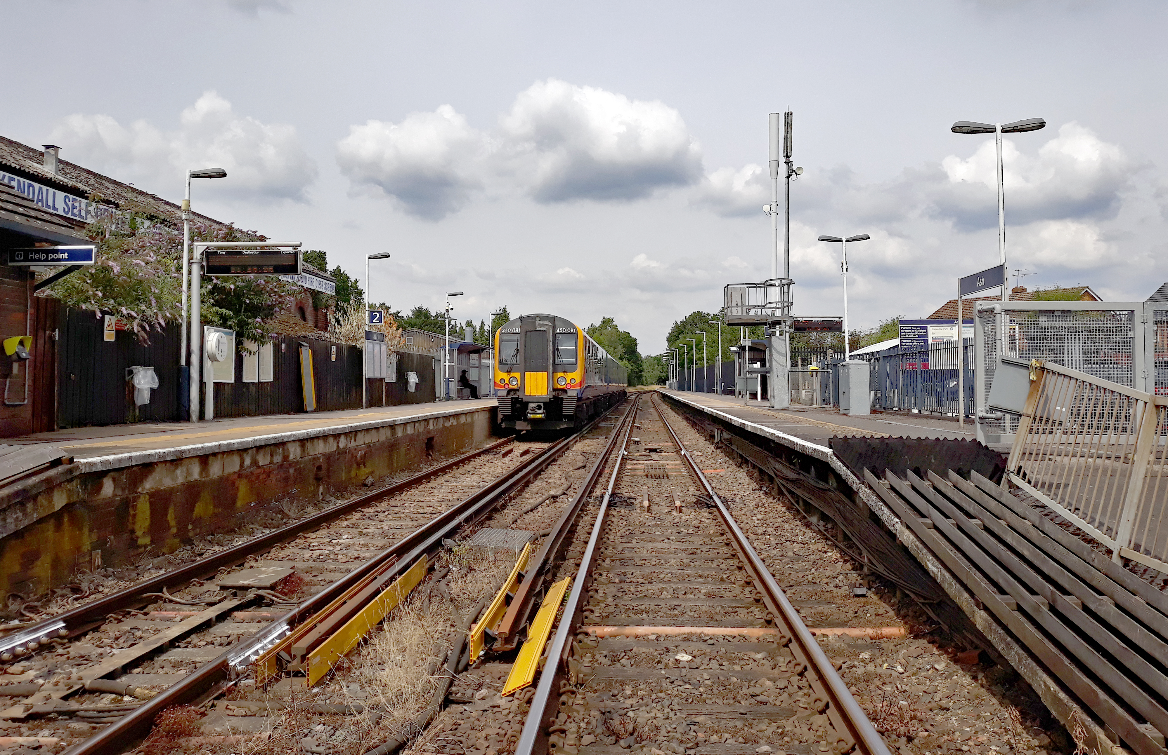 Ash Station, on the Ascot to Guildford Line and the North Downs Line, with South Western Railway train 450081 standing at the station. Surrey, England.